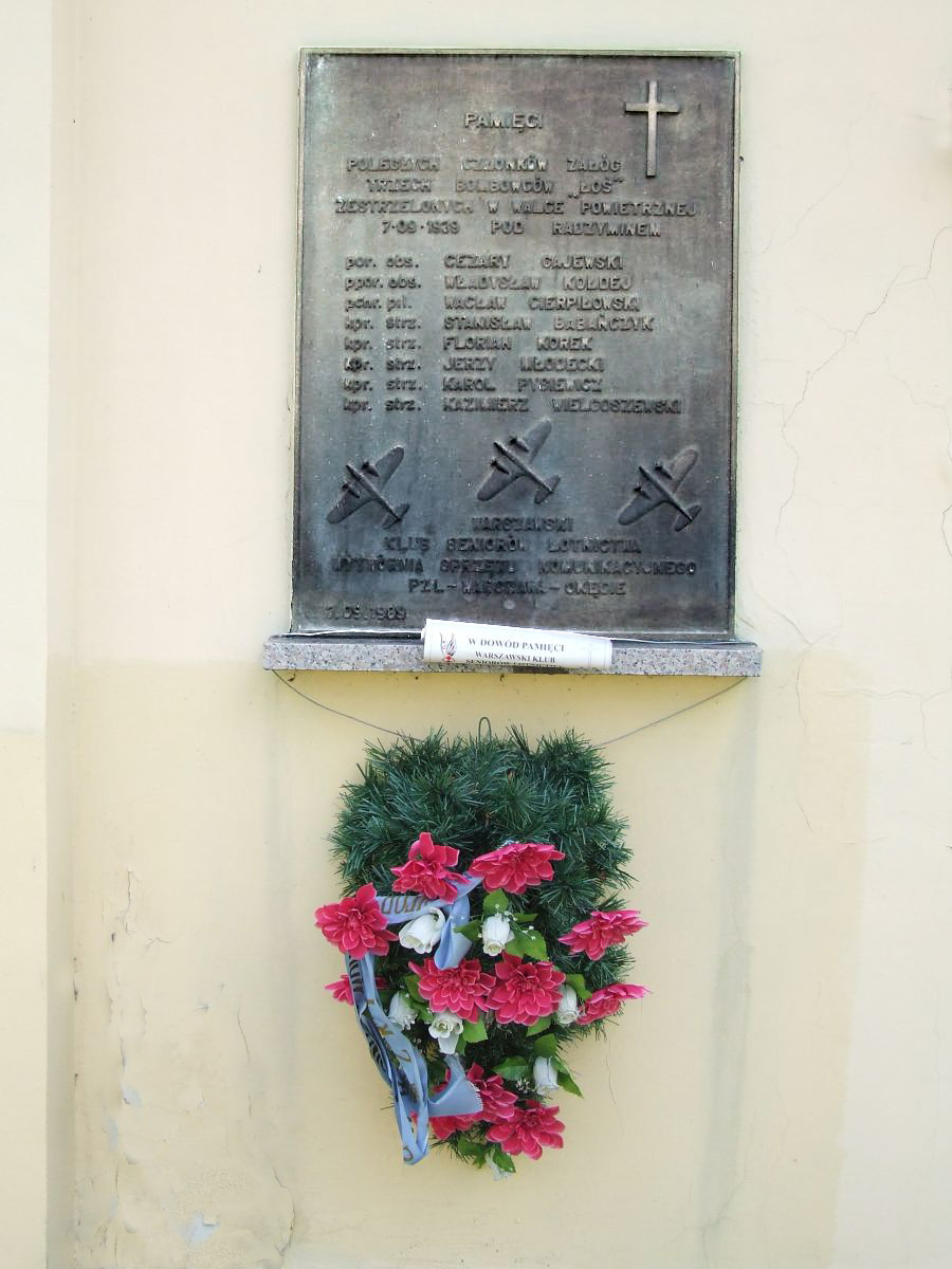 Cemetery in Radzymin, in memory of Polish soldiers of 1939